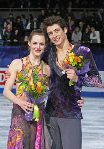 Tessa Virtue & Scott Moir (CAN) during the ice dancing medals ceremony at the 2009 Four Continents Championships. They won the silver medal at this event.